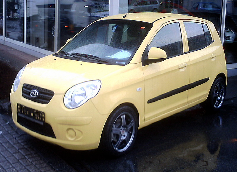 At this picture you can see a Kia Picanto with the facelift.